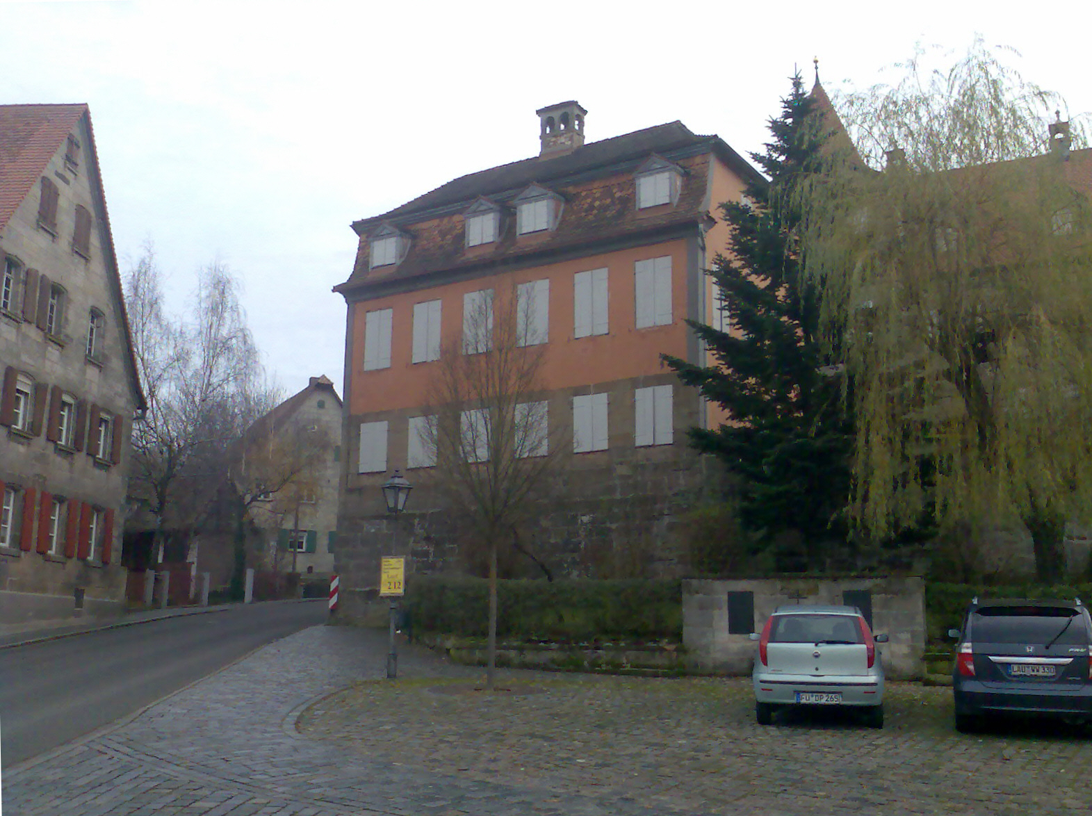 Picture of the Welser Castle II in Neunhof near Lauf at the Pegnitz, taken from North.